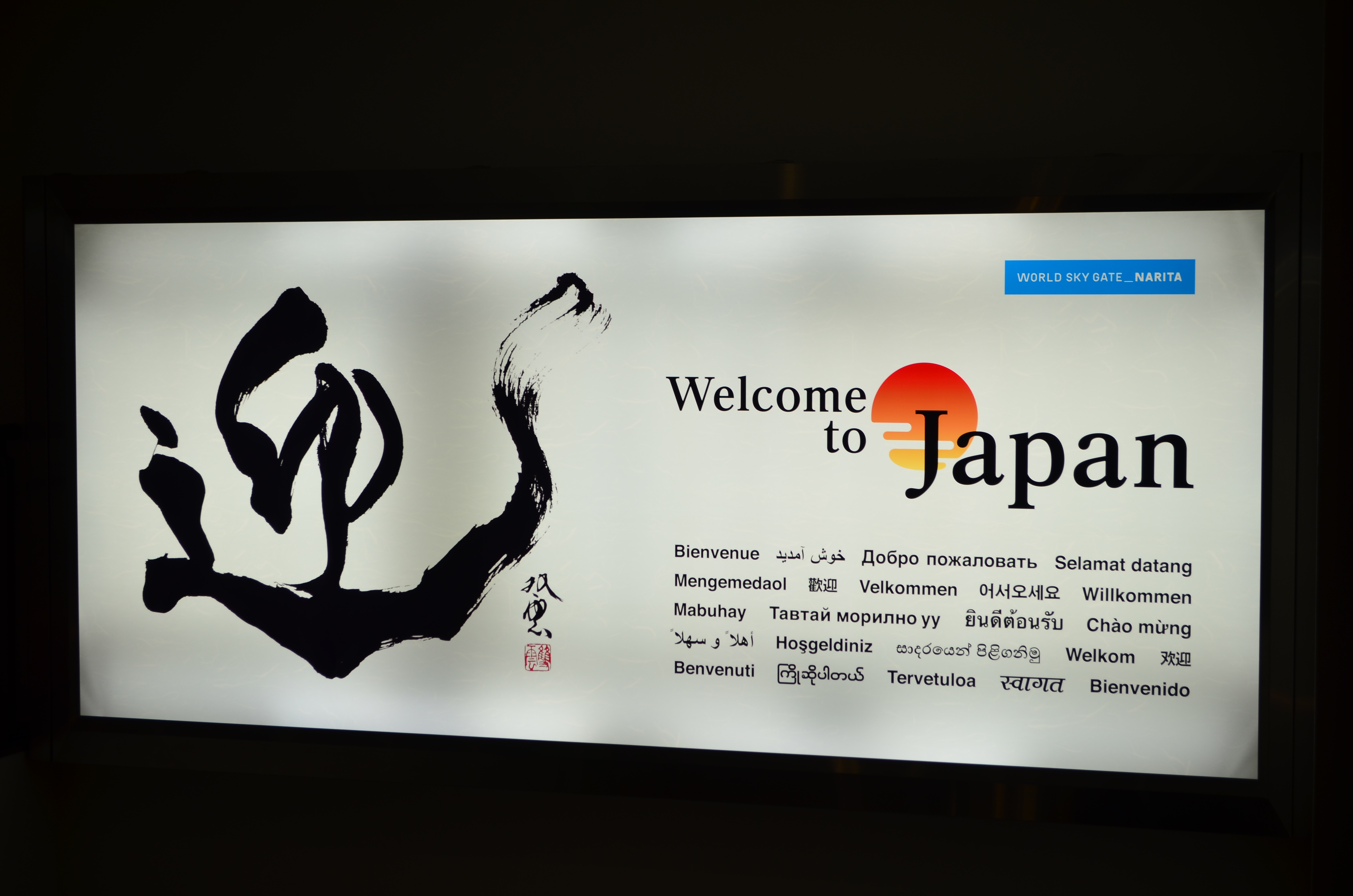 Narita International Airport